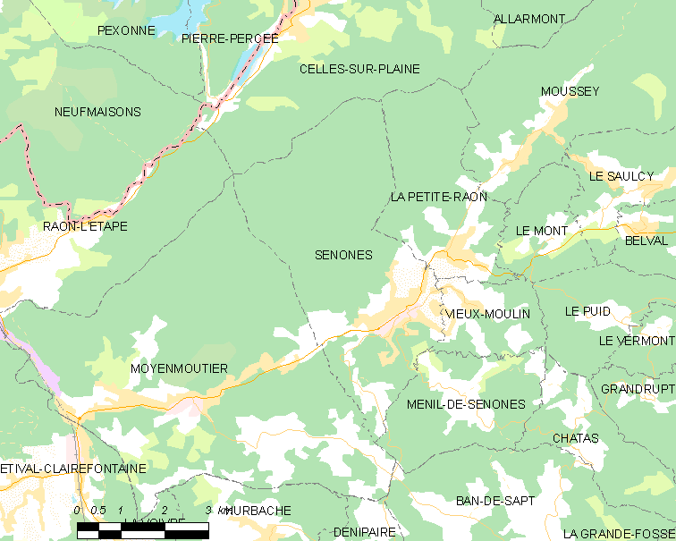 Map of French municipality Senones